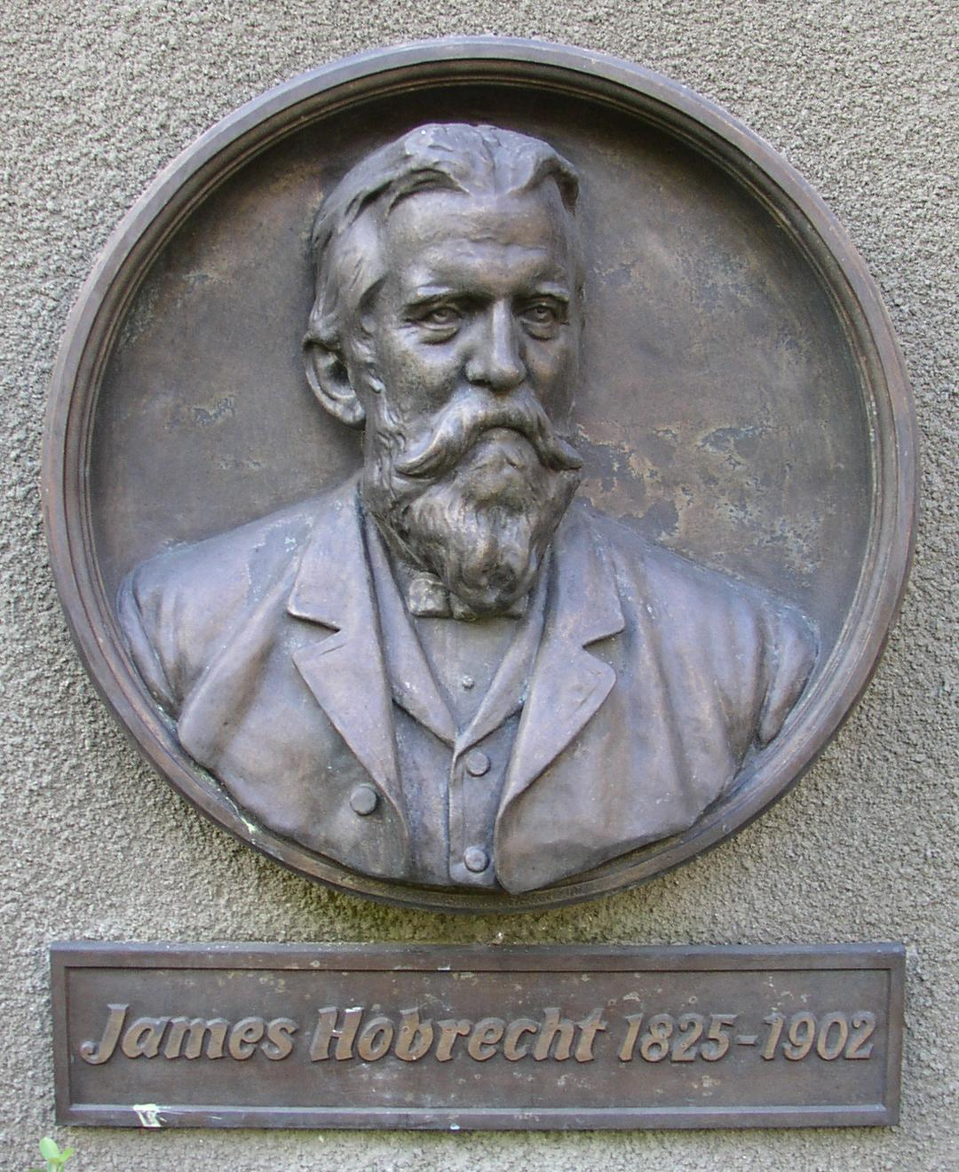 Memorial plaque for James Hobrecht in Panketal-Hobrechtsfelde in Brandenburg, Germany